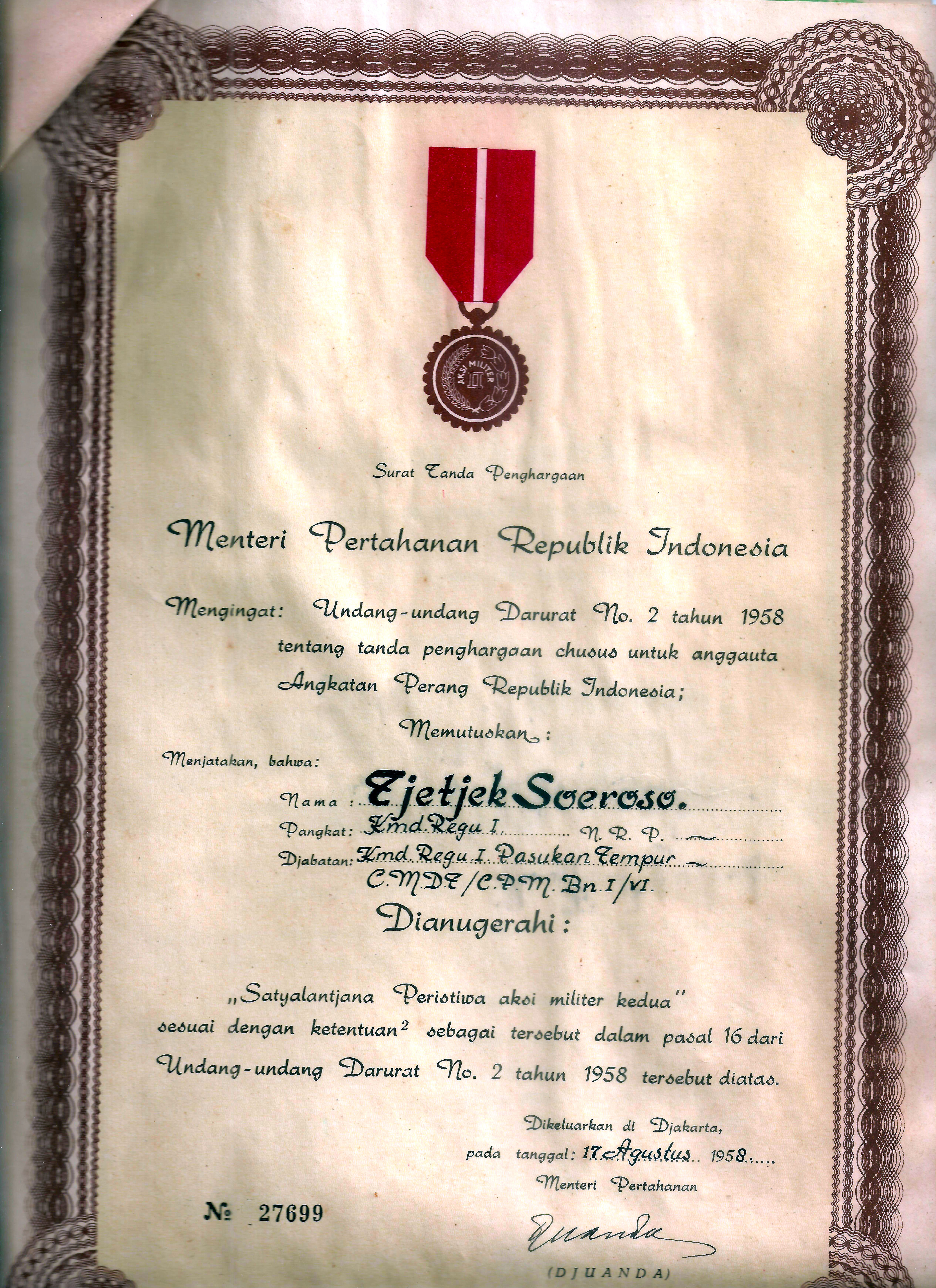 Aksi Militer II diploma as received by my grandfather